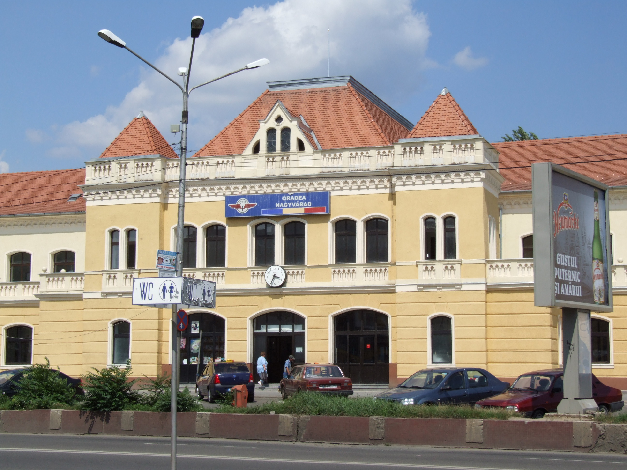 Oradea (Nagyvárad, Grosswawardein) - train station Ślůnski: Banhow we mjeście Oradea (madź. Nagyvárad, mjym. Grosswawardein), Růmůńijo